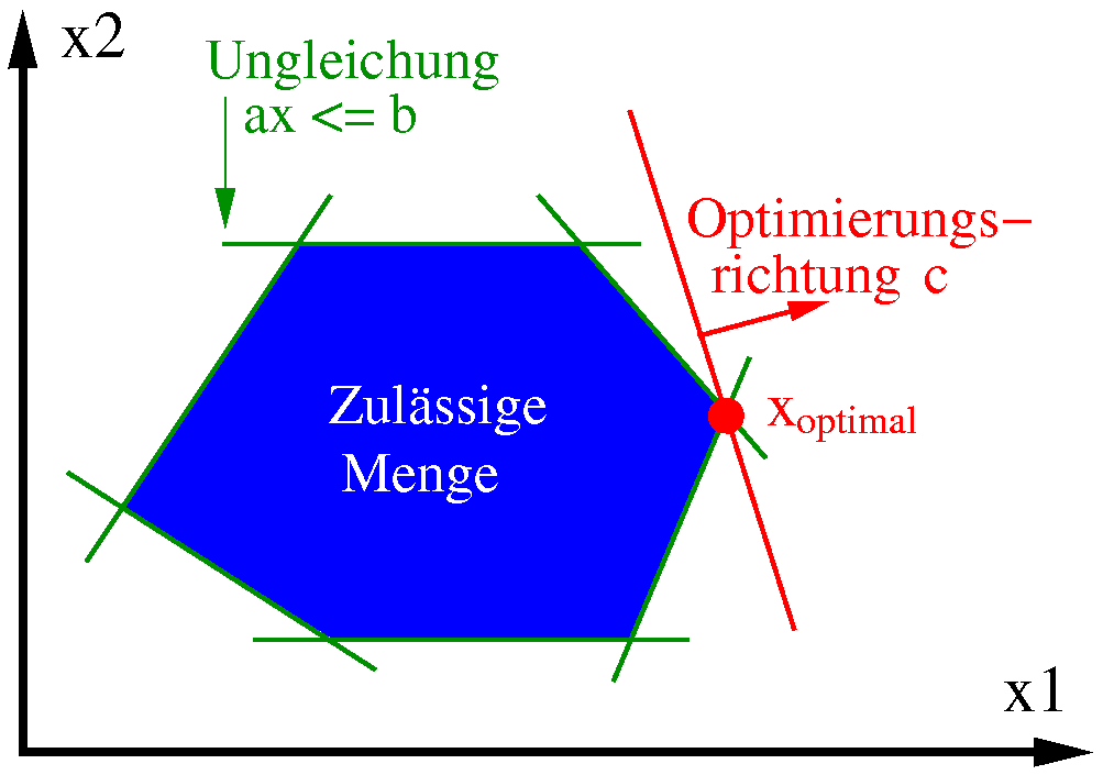 Shows a polyhedral feasible region bounded by hyperplanes, as occurring in linear optimization problems. together with an objective function (red line) and an optimal solution (red point).